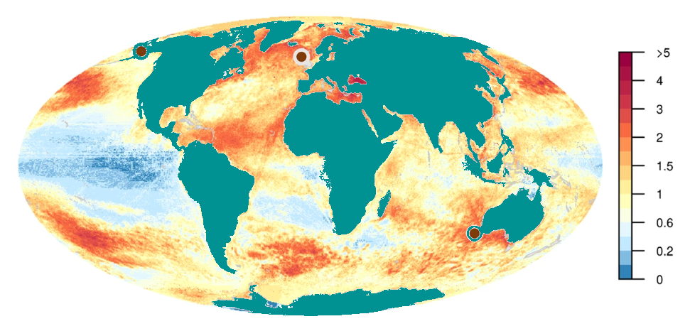 Global cumulative human impact on the ocean: Global patterns of cumulative human impacts.. Static map of 2013 CHI. (C) Coastal areas displayed for both pace of change and 2013 CHI for regions (indicated by dots on global CHI map) with dominant patterns of: high CHI, fast increasing pace of change (Southwestern Australia); high CHI, decreasing (North Sea); and low CHI, decreasing (Yukon Delta region of Alaska). There were no clear examples of low CHI, fast increasing